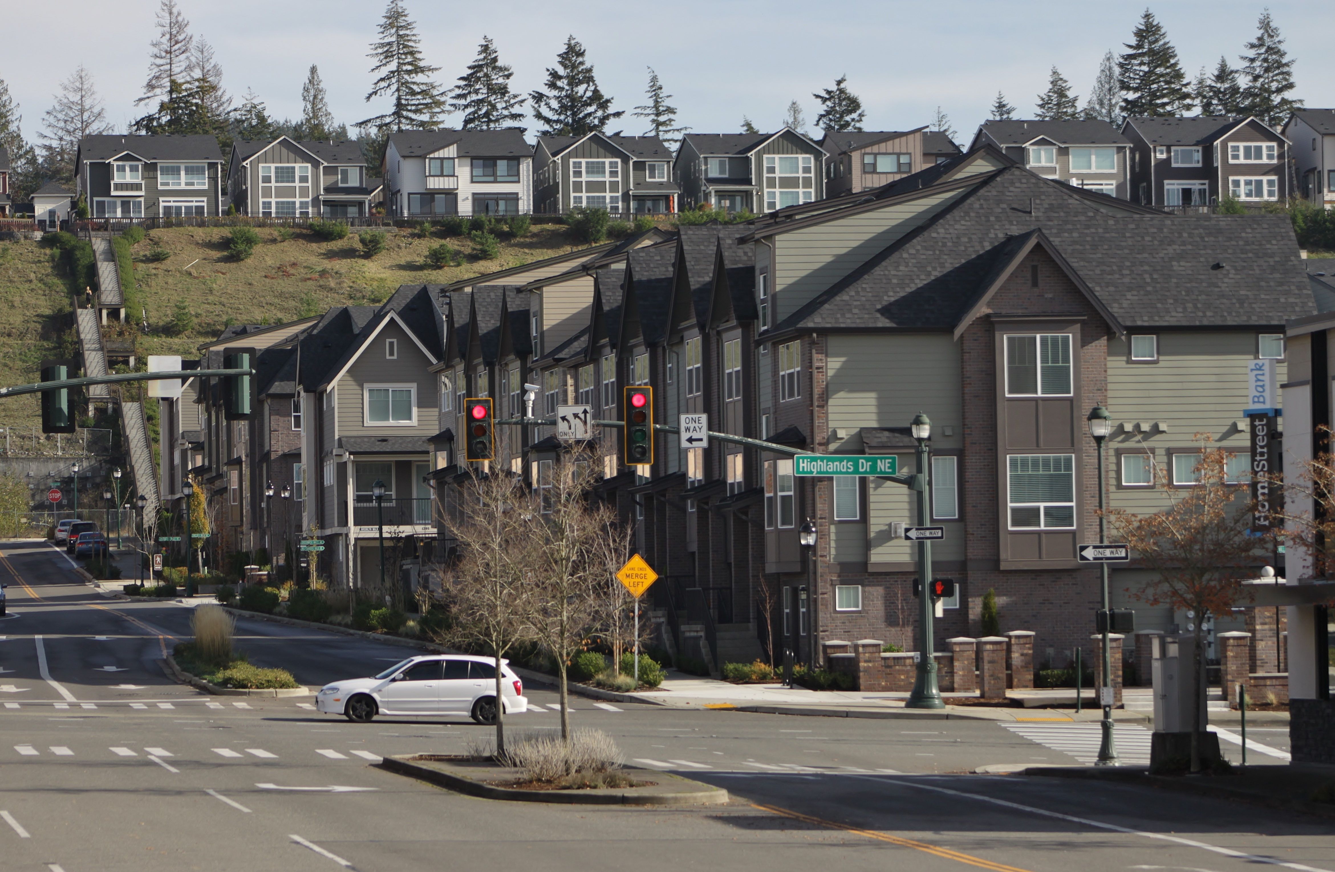 A telephoto picture of residential units at Issaquah Highlands, a master-planned community near Seattle.